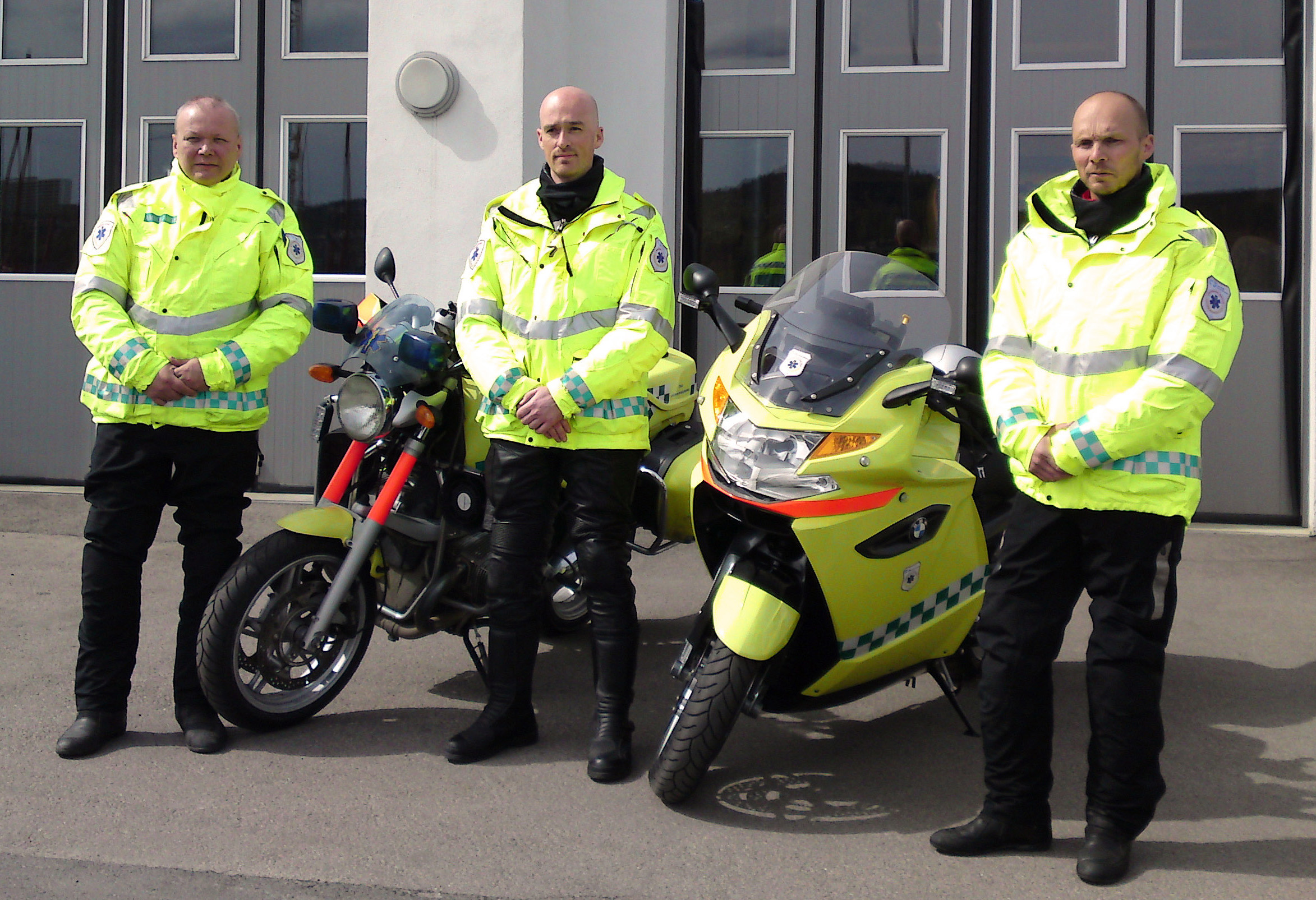 Motorsykkel personell MUE